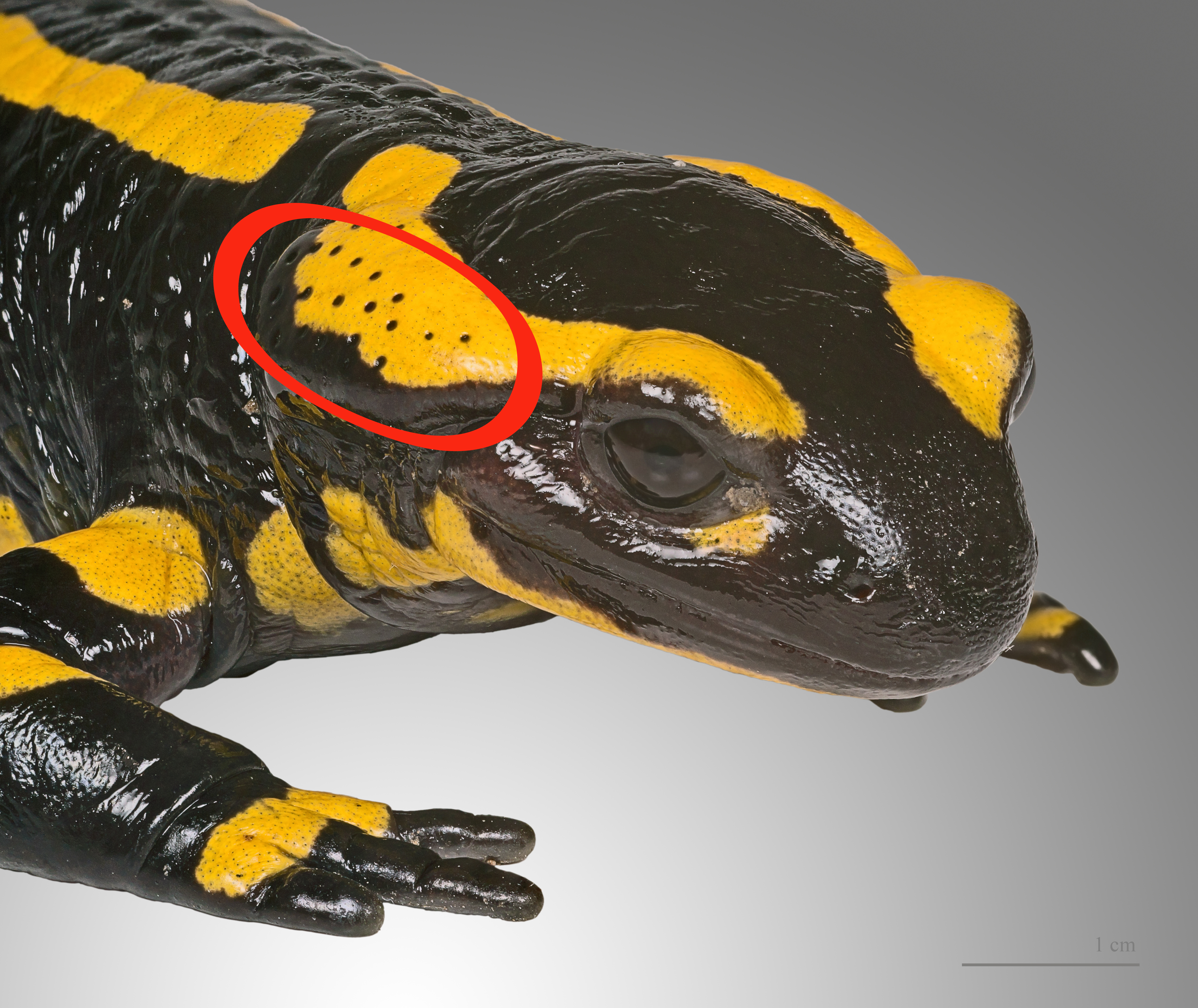 ♂ - Fire Salamander Parotide gland, neurotoxin. Locality: Maourine pond, Toulouse, France.